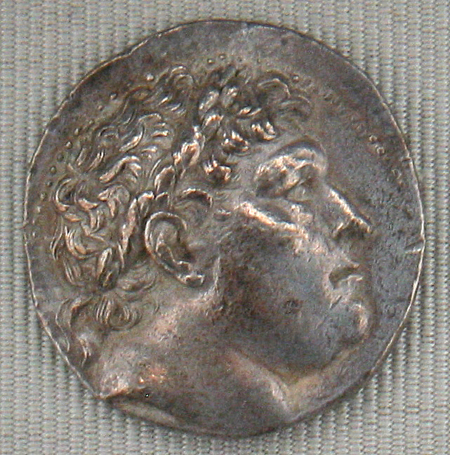 Silver tetradrachm of Eumenes I of Pergamon, obverse: portrait of Philetairos.